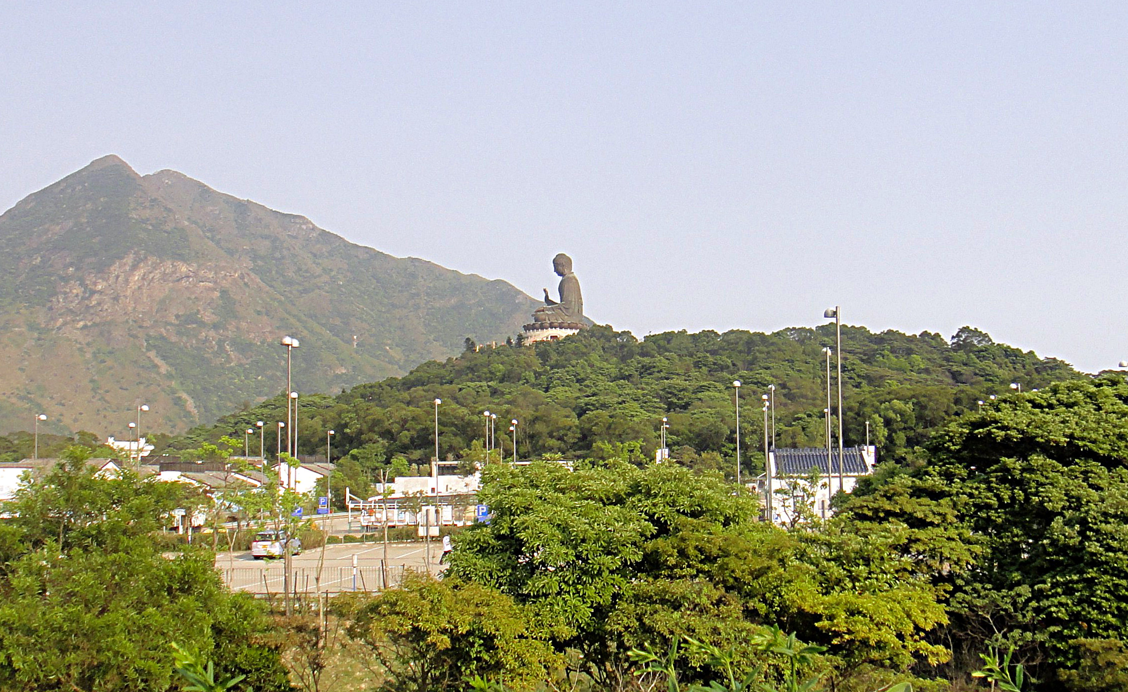 Tian Tan Buddha from Ngong Ping